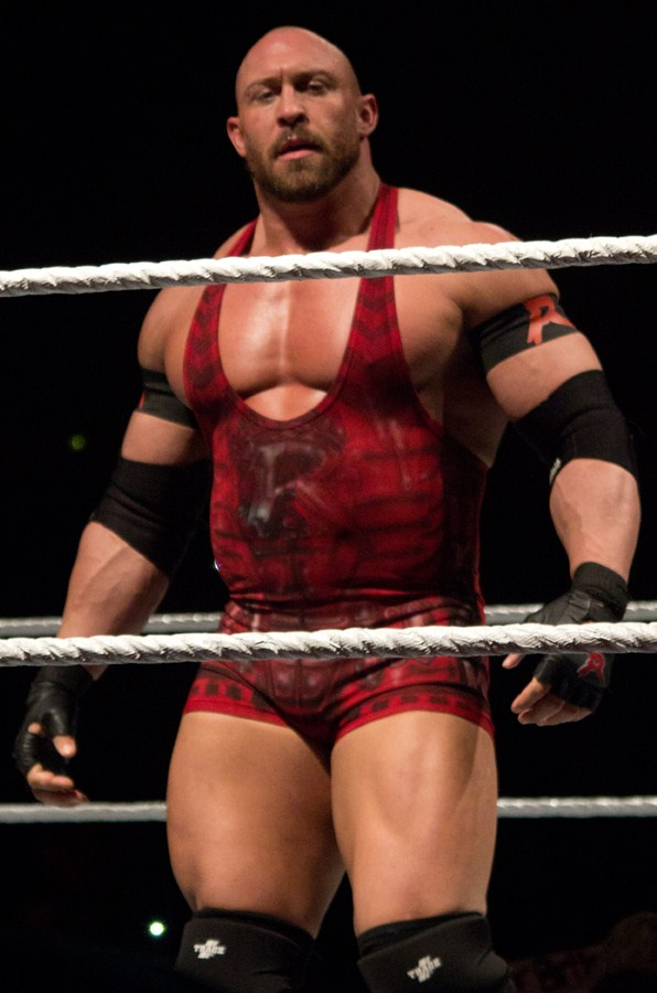 Ryback during a WWE house show on February 2, 2013 in Montgomery, Alabama.